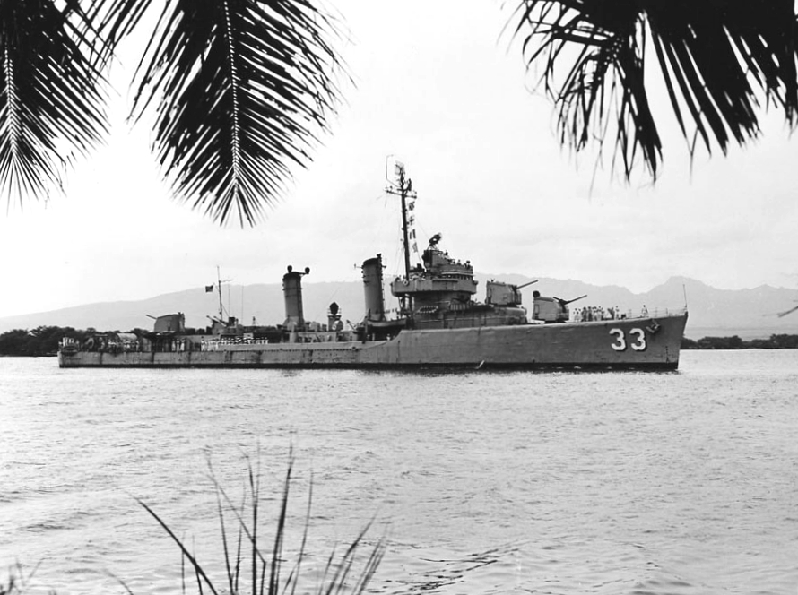 The U.S. Navy high-speed minesweeper USS Carmick (DMS-33) at Pearl Harbor, Hawaii (USA), with the crew at quarters, circa the early 1950s.